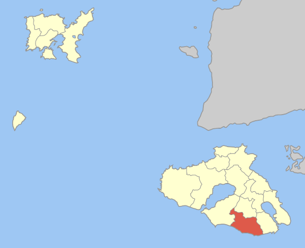 Locator map of Plomari municipality (Δήμος Πλωμαρίου) in Lesbos prefecture (Νομός Λέσβου) in Greece.